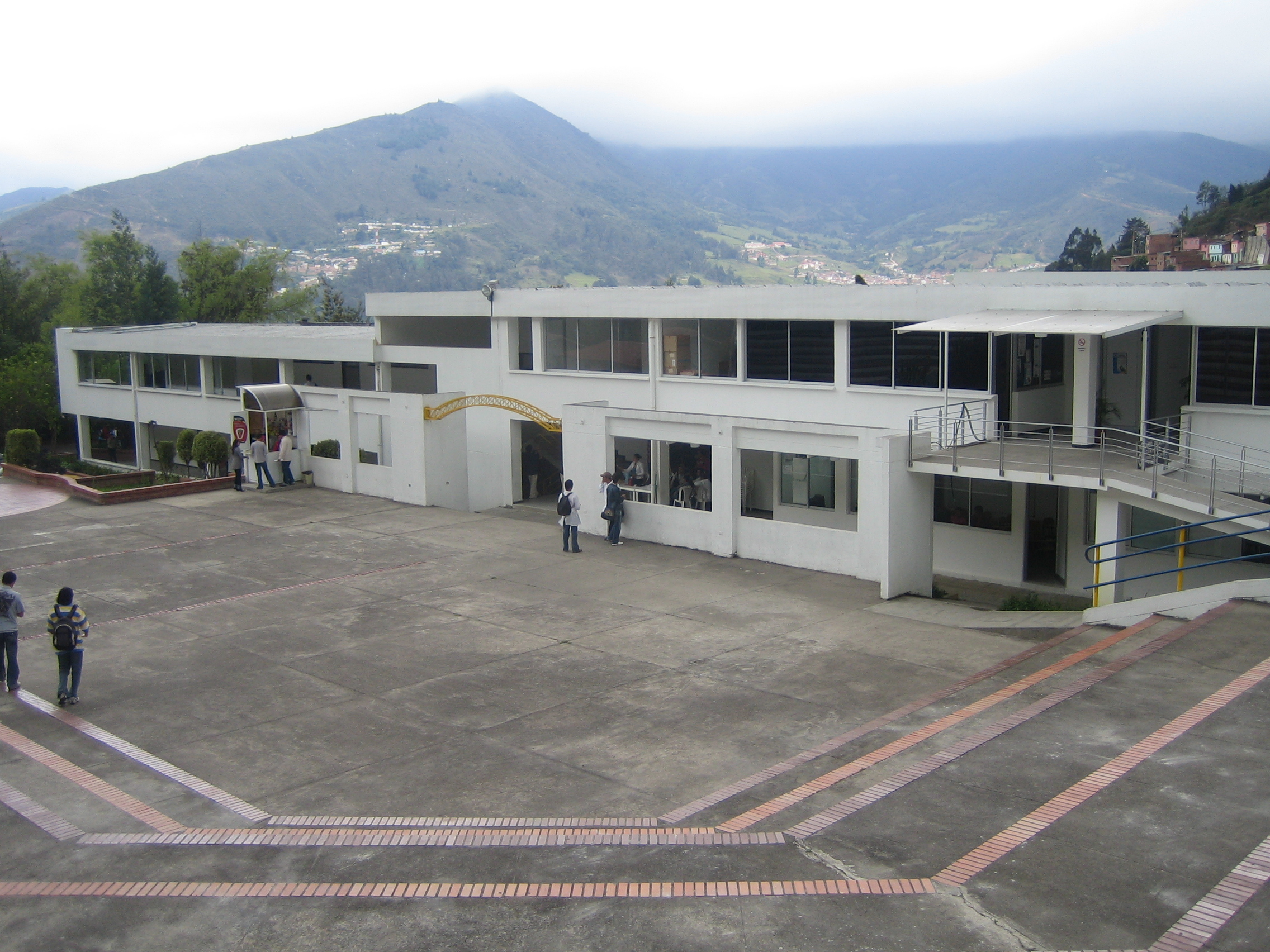 "Half Cake" - University of Pamplona - Pamplona, Norte de Santander - COLOMBIA